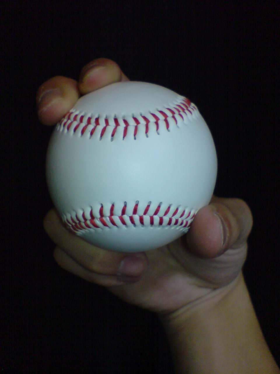 Slider